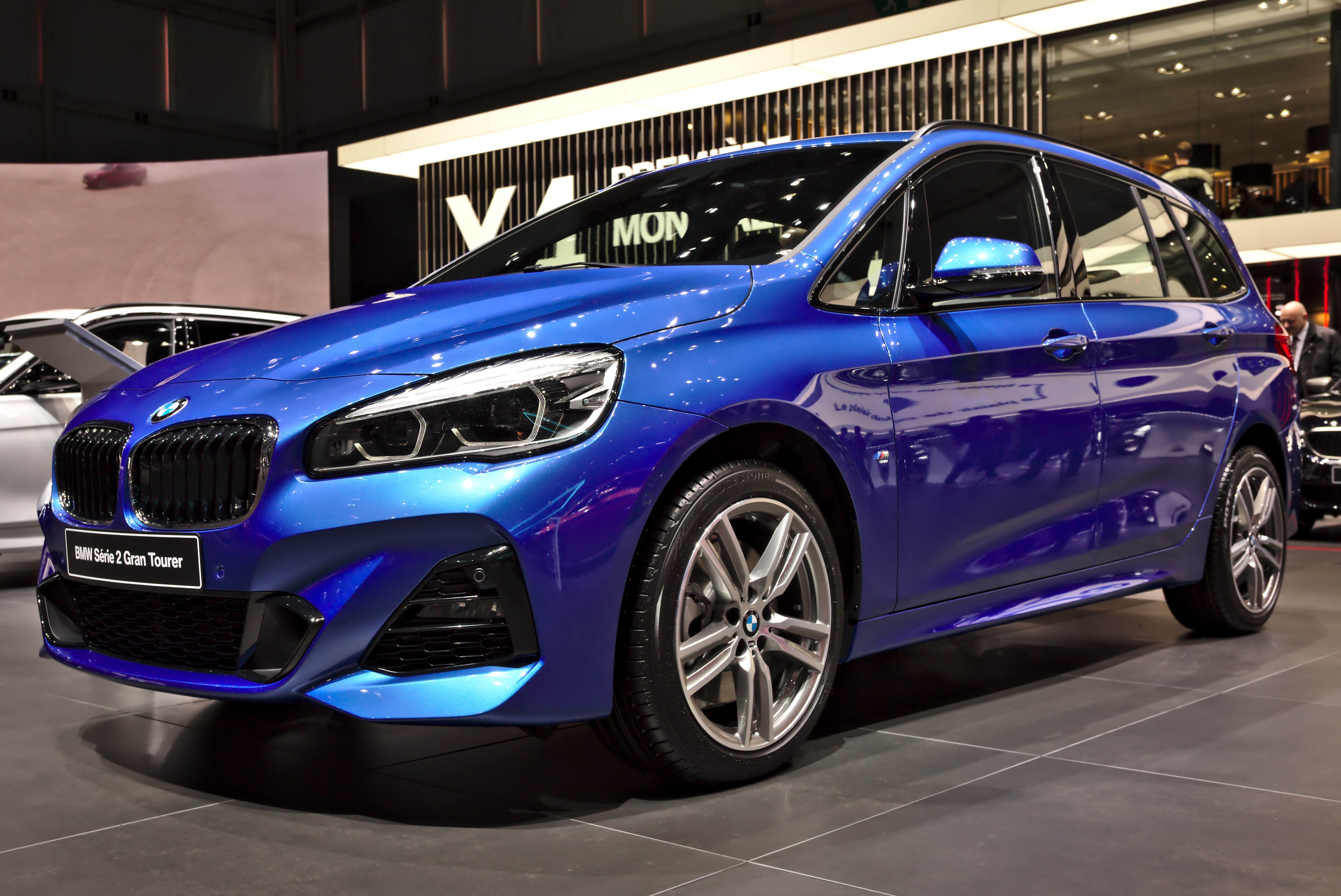 BMW 2er Gran Tourer at Geneva Motorshow 2018